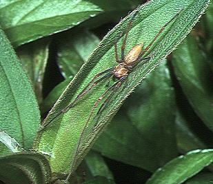 male Cheiracanthium eutittha from Okinawa.